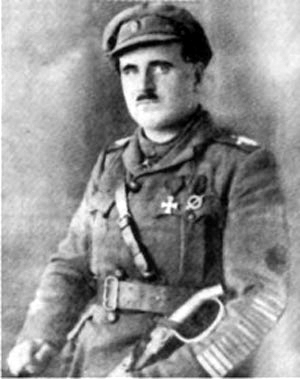 Vladimir Kislitsin -the image was shot in 1920 in Chita.